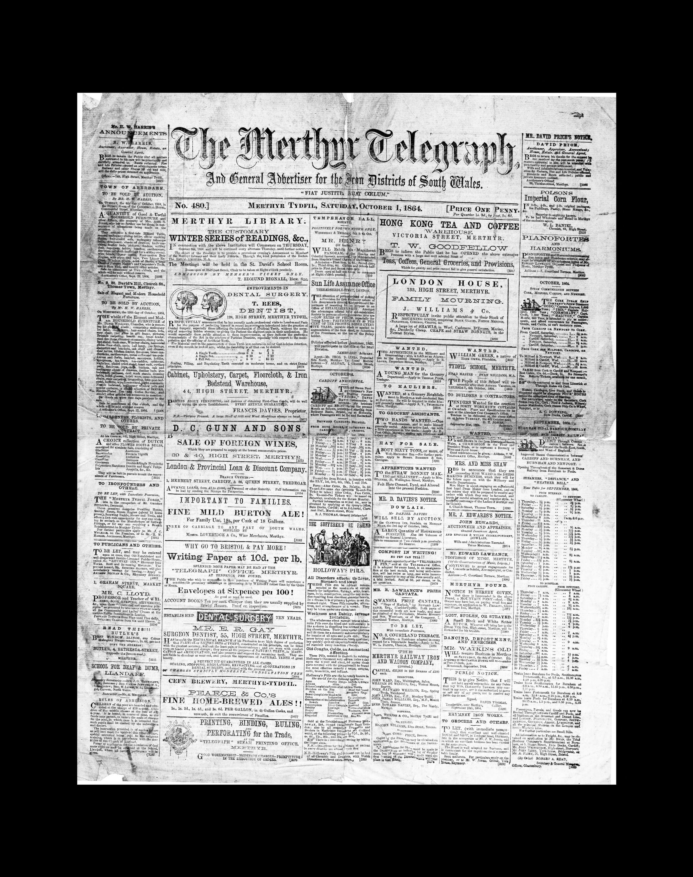 Front page of the earliest surviving copy of the Welsh newspaper The Merthyr Telegraph